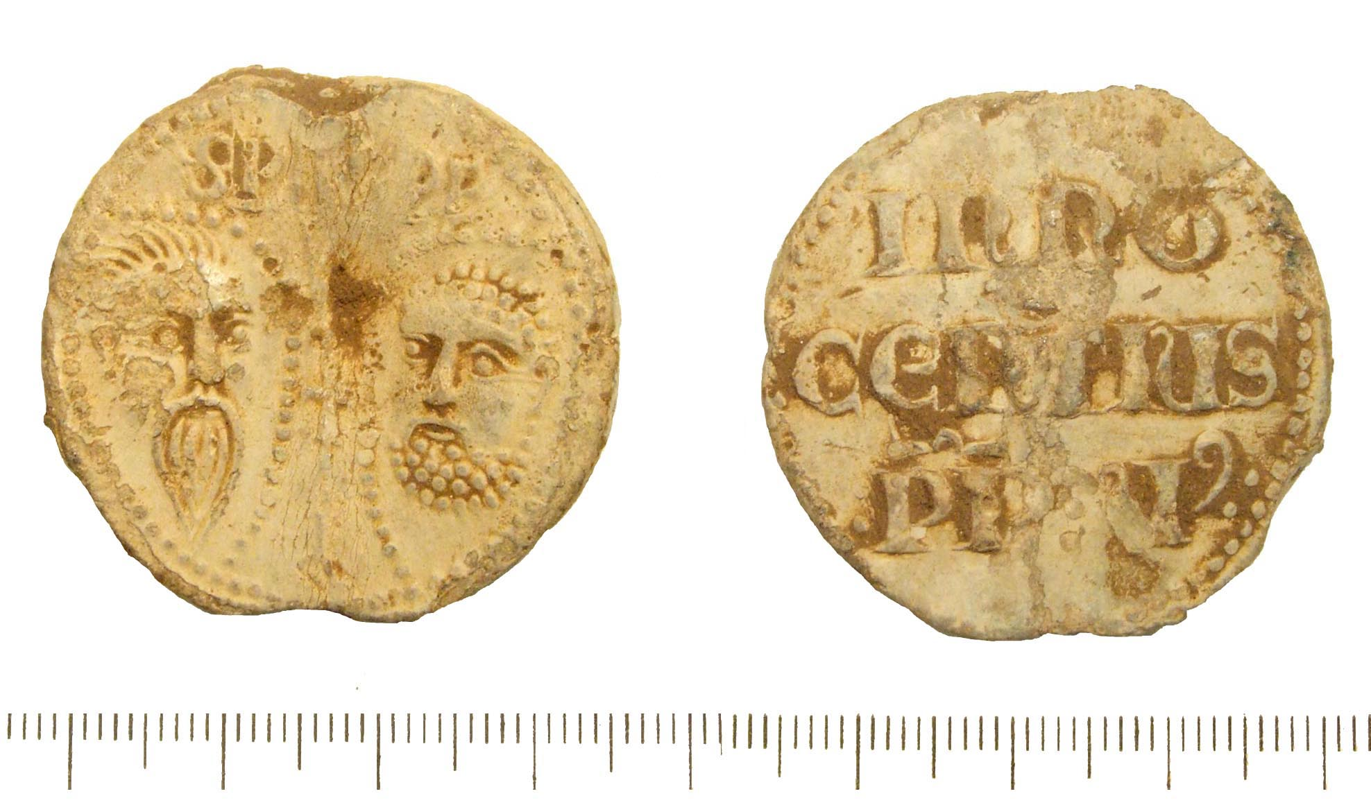 A lead papal bulla of Pope Innocentius V (1276). Papal bullae were used as seals on official papal documents to authenticate their provenance and authority and were often reused as religious amulets. On the obverse are the busts of St Peter and St Paul, each within a beaded border. Above the busts is the inscription SPASPE, abbreviations for St Paul and St Peter. The reverse has the inscription of the pope INNO/CENTIVS/PP V. 'PP' is an abbreviation for pastor pastorum, which translates as 'shepherd of the shepherds'. There is an omega above the letters PP. The edges of the bull have sustained considerable damage and there is a hole in the centre for the attachment cord that has been drilled from both sides.